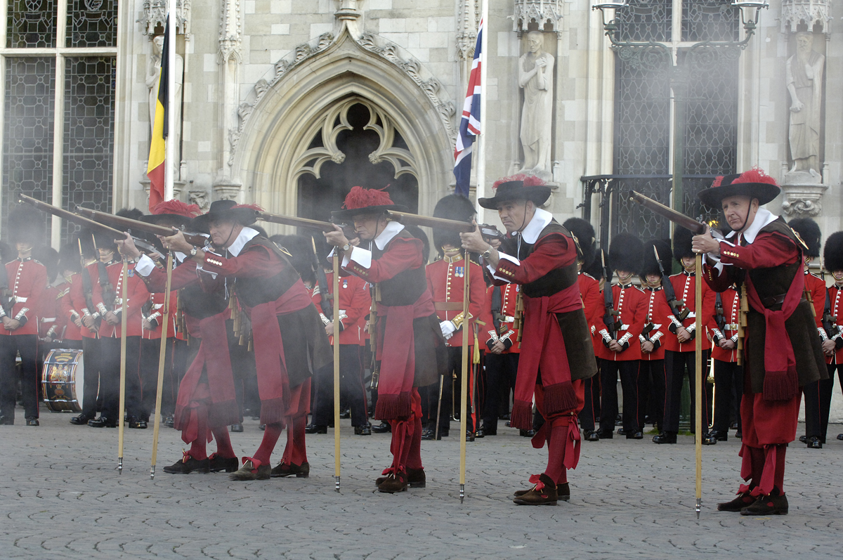 Musketeers giving fire, Bruges 2006